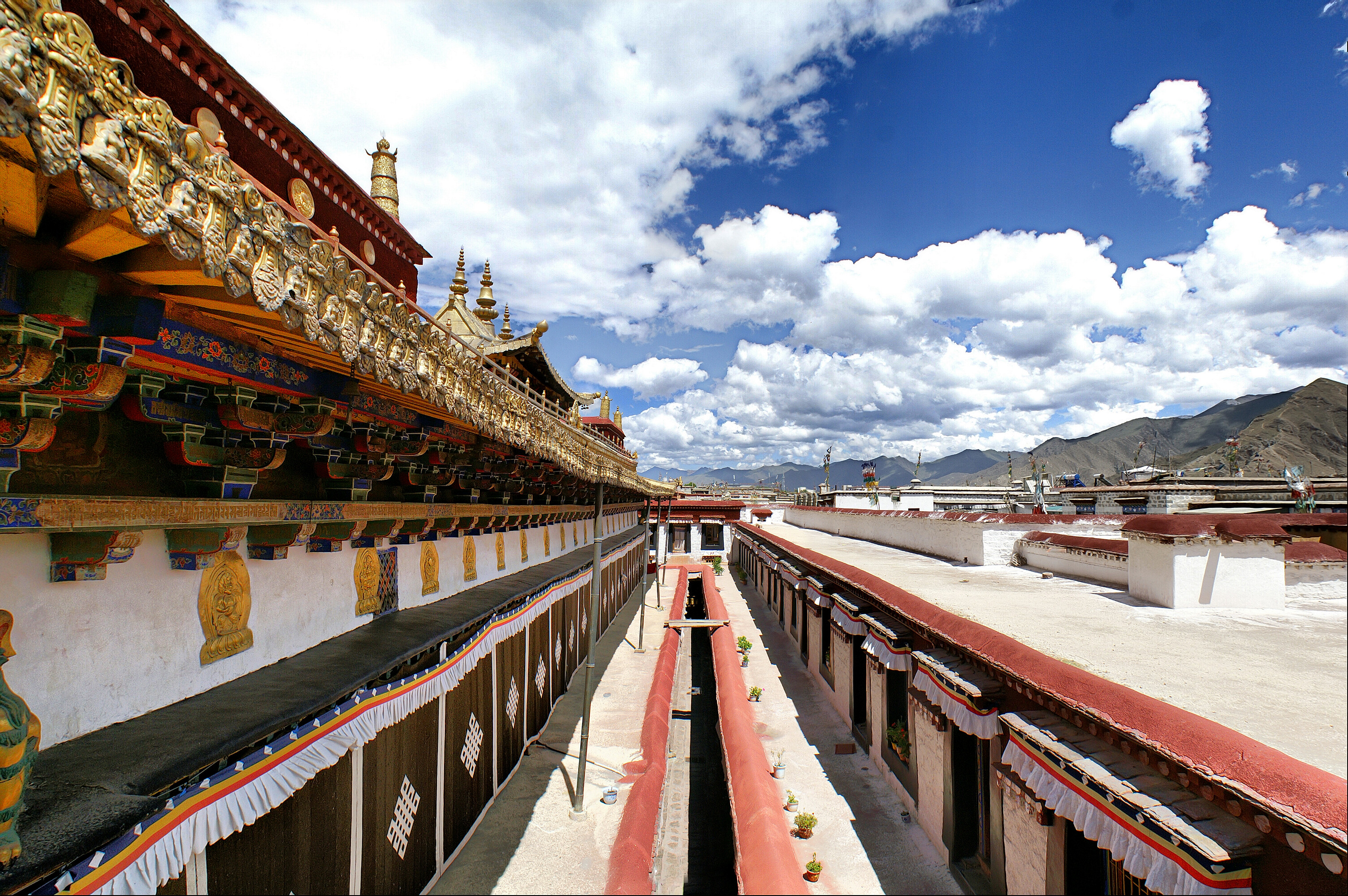 a corner of Jokhang Temple